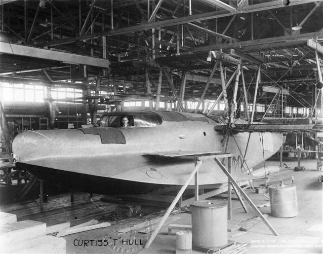 Photograph of Curtiss Model T Wanamaker Triplane partially constructed.